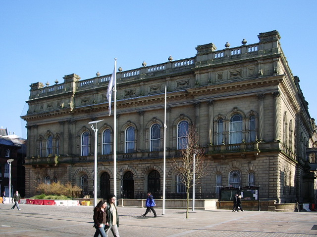 Blackburn Town Hall, Blackburn, Lancashire, England.